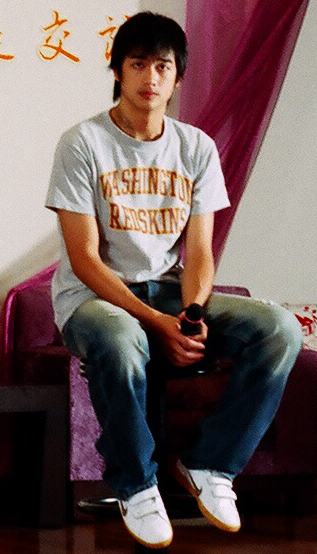 Matt Wu at an event to promote the 2007 film Da-Yu: The Touch of Fate